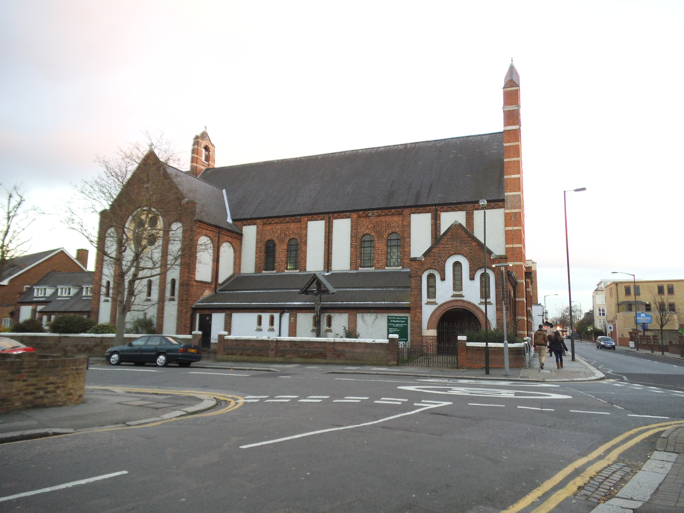 St Winefride's church on Latimer Road, Wimbledon